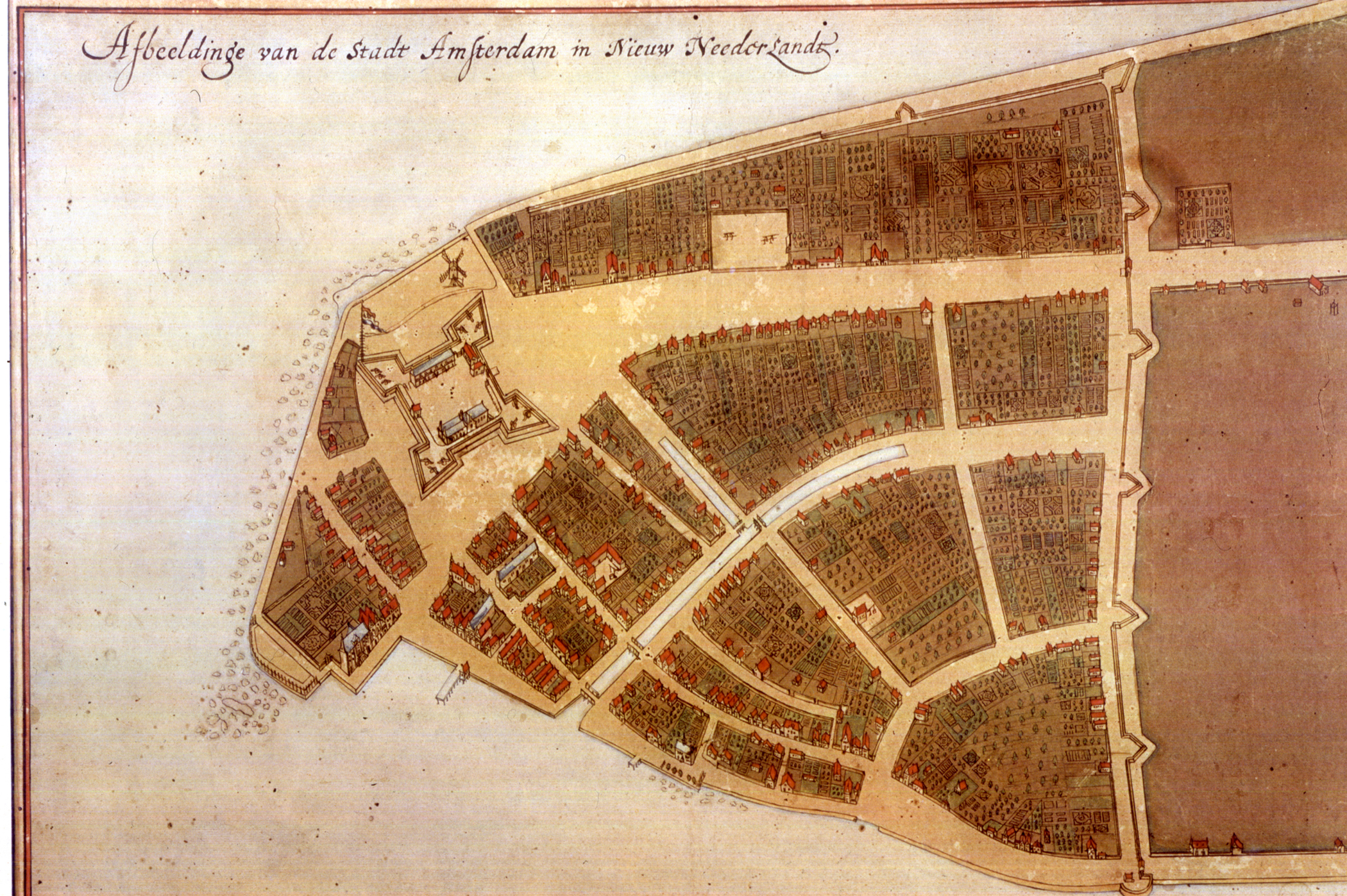 The original Castello Plan. Full size photograph of manuscript map in the Biblioteca Medicea-Laurenziana of Florence, Italy. The Castello plan is the earliest known plan of Amsterdam (so not New Amsterdam, as you can see on the picture), and the only one dating from the Dutch period. The text at the top of the image states: "Image of the city Amsterdam in New Netherland".